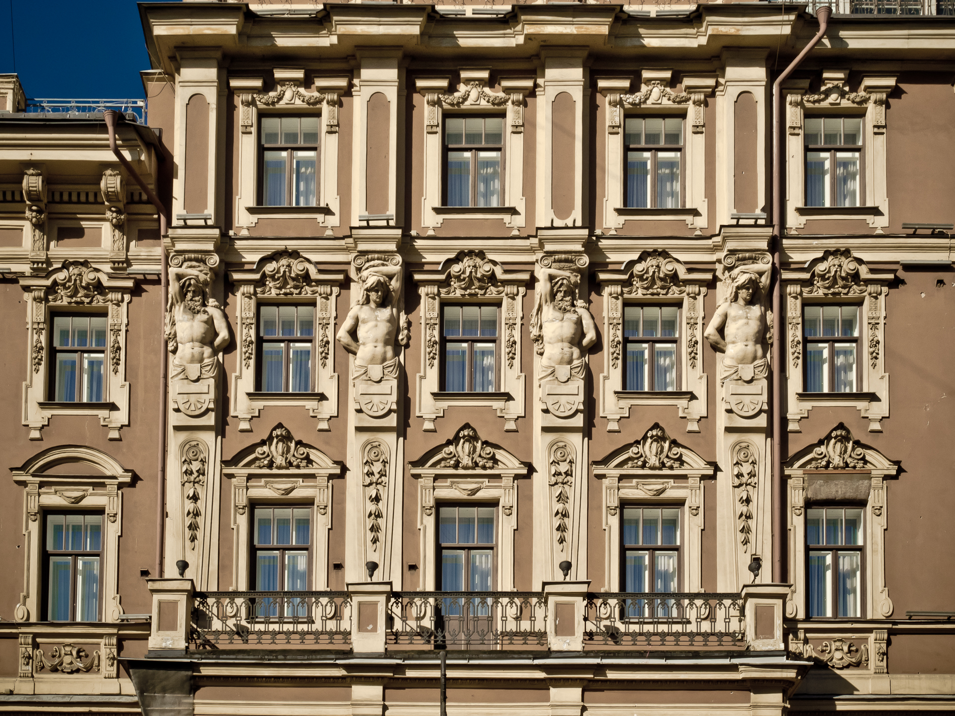 The Grand Hotel Europe in Saint Petersburg. Details